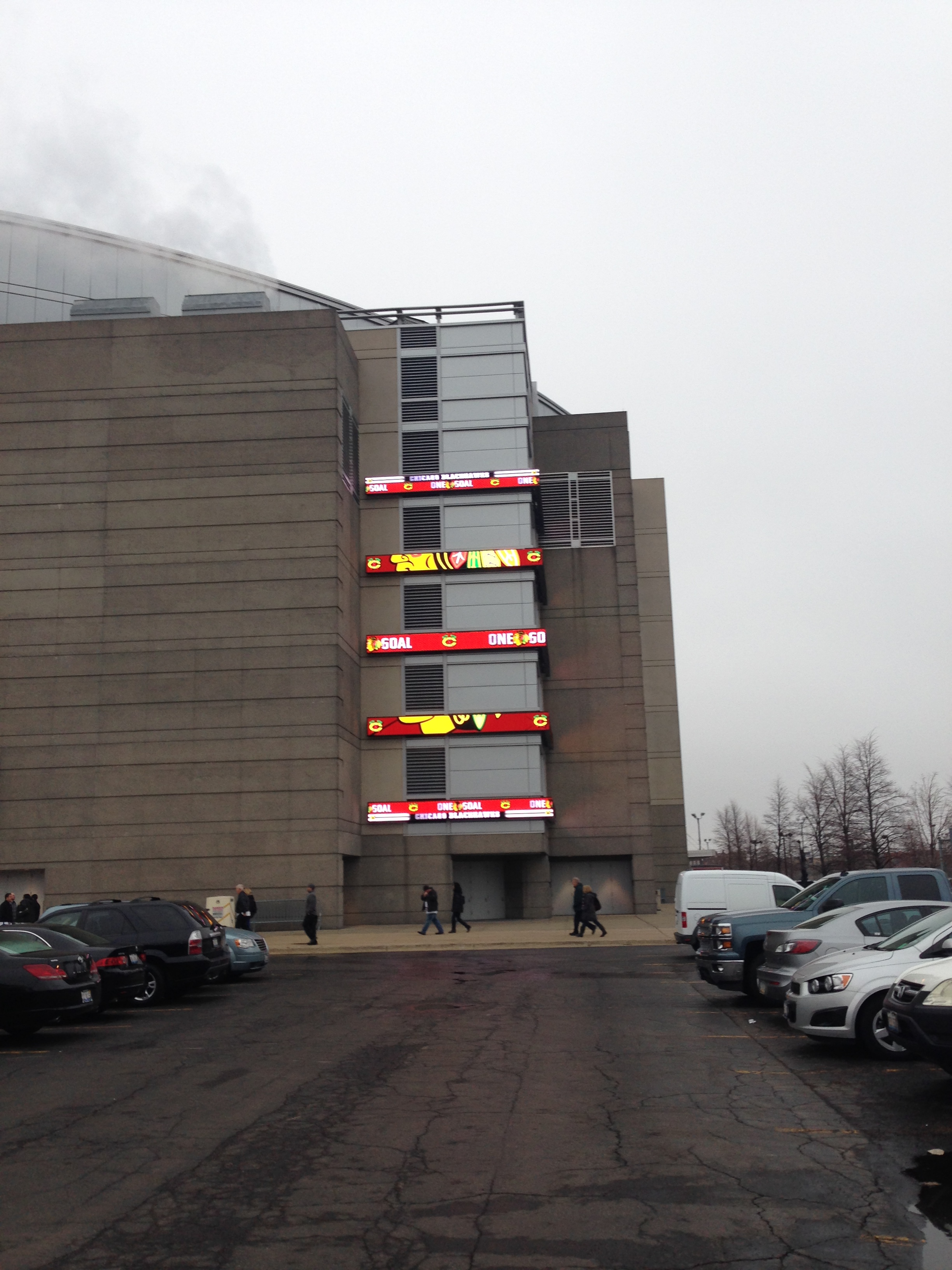 United Center's new LED lighting.